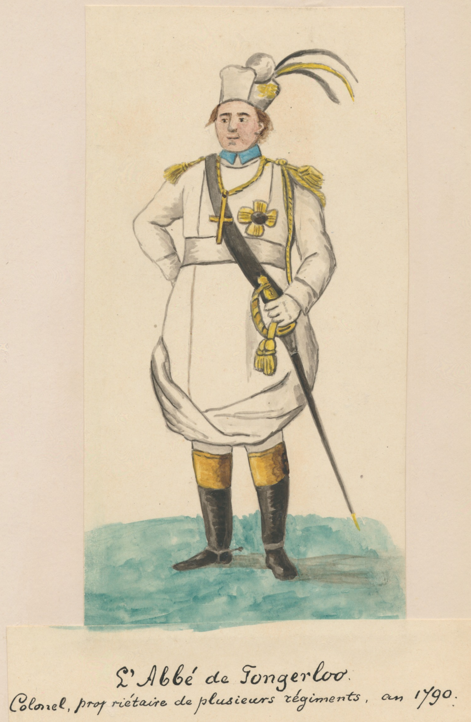 Ownership : The Draper Fund (571237) The Abbé of tengerloo, a noted patriot, colonel and chief of many regiments, 1790. (?)